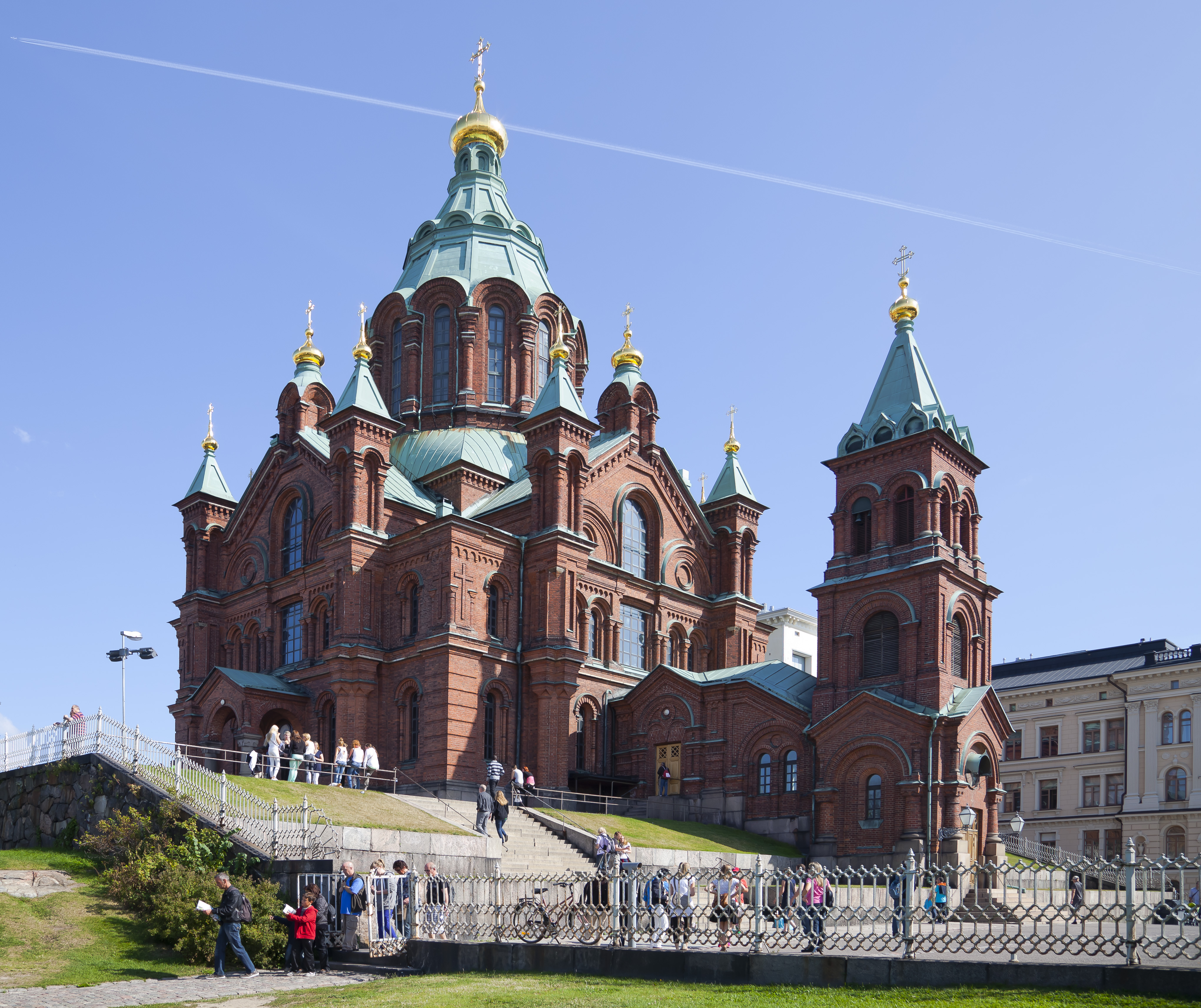 Uspenski Catedral, Helsinki, Finnland